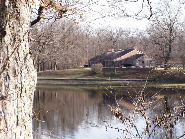 Nature Center across the lake